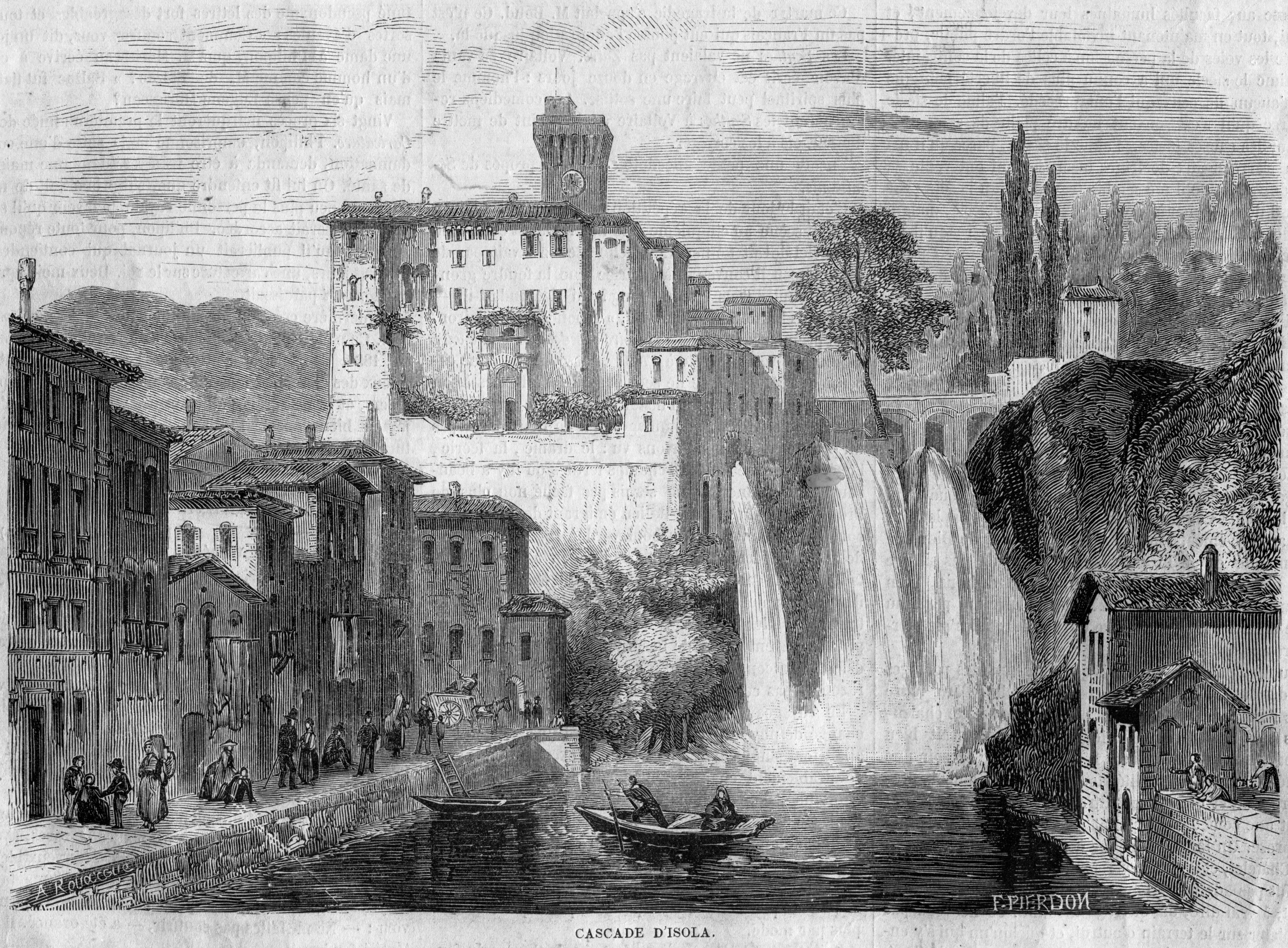 L'Illustration 1862 gravure Cascade d'Isola del Liri